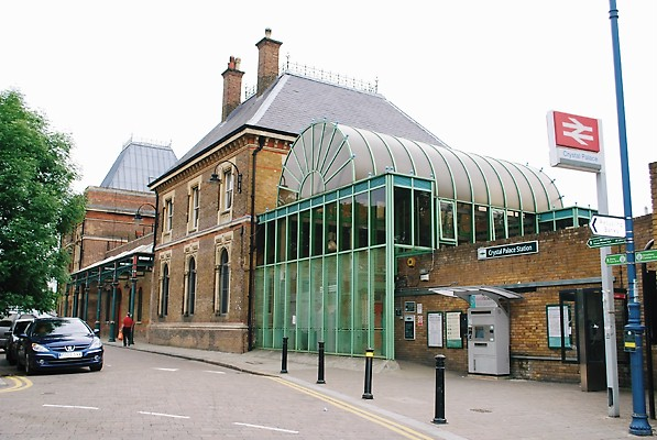 The station building of Crystal Palace Low Level station with a modern extension presumably intended to reflect the original Crystal Palace; 06/09.